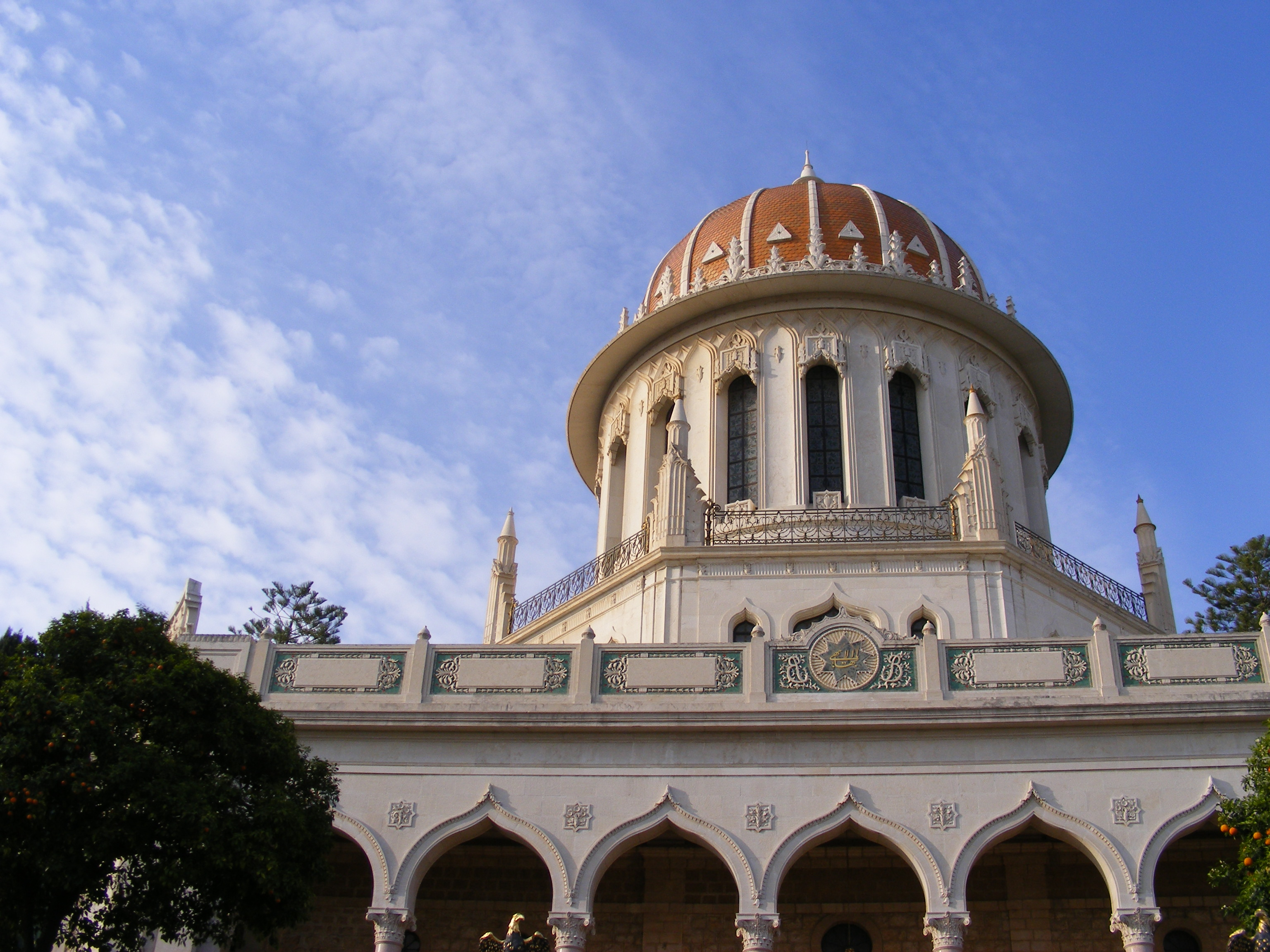 Shrine of the Báb, Haifa, Israel.